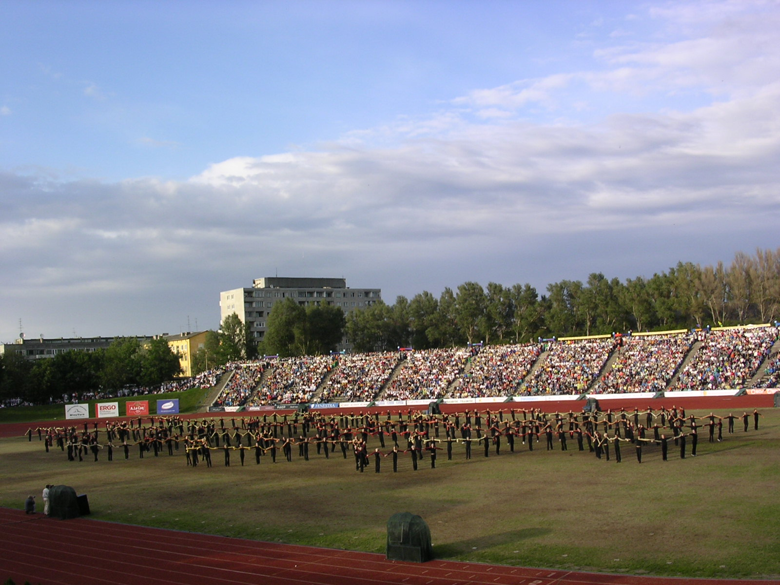 The Dance Festival at Kalevi Stadion